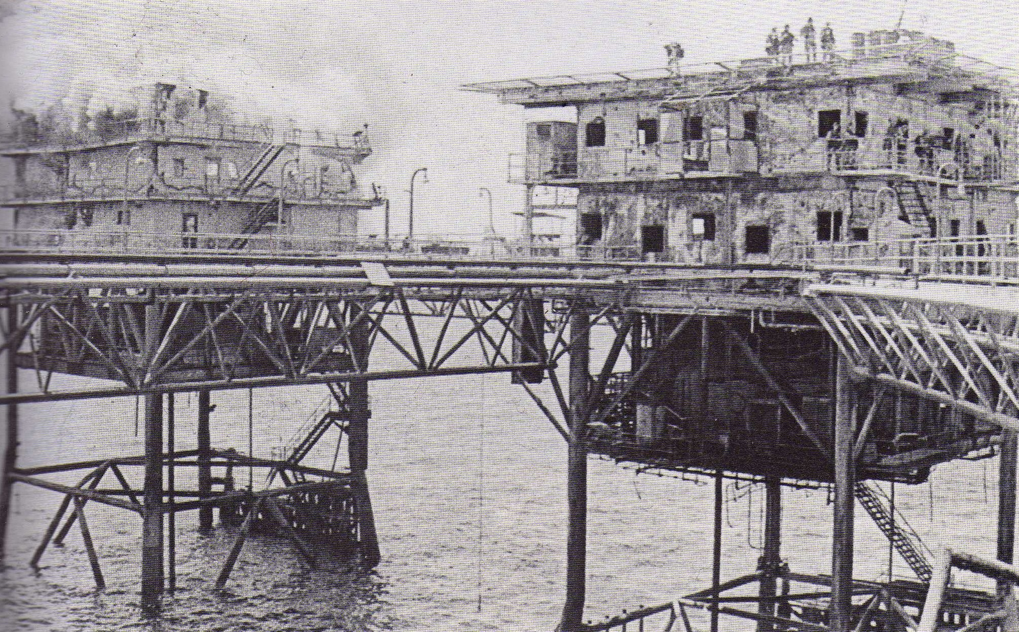 Operation Praying Mantis: US Marines on top of the Iranian oil platform of Sassan. April 18 1988